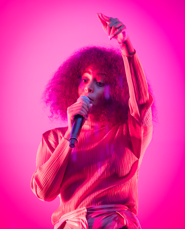 Solange at the main stage in the Vigeland Park. The concert was part of Piknik i Parken and took place on 23. June 2017 in Oslo. Lineup: Solange Knowles (vocal).